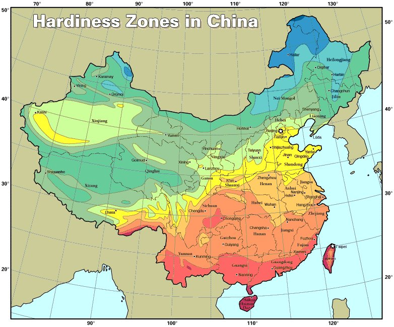 China Hardiness Distribution Map 1 (below −50 °F or −45.6 °C) 2 (−50 to −40 °F or −45.6 to −40.0 °C) 3 (−40 to −30 °F or −40.0 to −34.4 °C) 4 (−30 to −20 °F or −34.4 to −28.9 °C) 5 (−20 to −10 °F or −28.9 to −23.3 °C) 6 (−10 to 0 °F or −23.3 to −17.8 °C) 7 (0 to 10 °F or −17.8 to −12.2 °C) 8 (10 to 20 °F or −12.2 to −6.7 °C) 9 (20 to 30 °F or −6.7 to −1.1 °C) 10 (30 to 40 °F or −1.1 to 4.4 °C) 11 (40 °F or 4.4 °C and above)